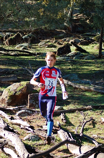 Eduard Smehlik (CZE) Junior World Orienteering Championships 2007 -- Long